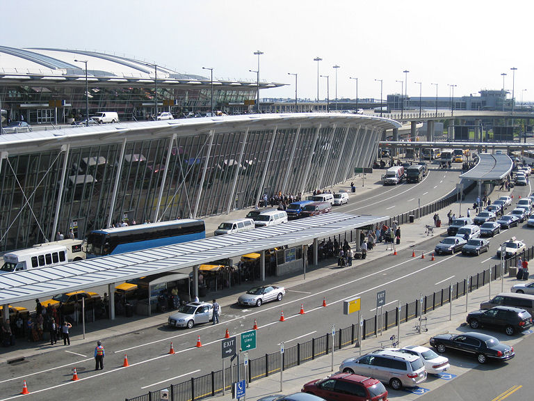 JFK Terminal 4, New York – one of JFK's better terminals. If you're flying through the wrong terminal at JFK you will have one of the worst major city airport experiences in the world.